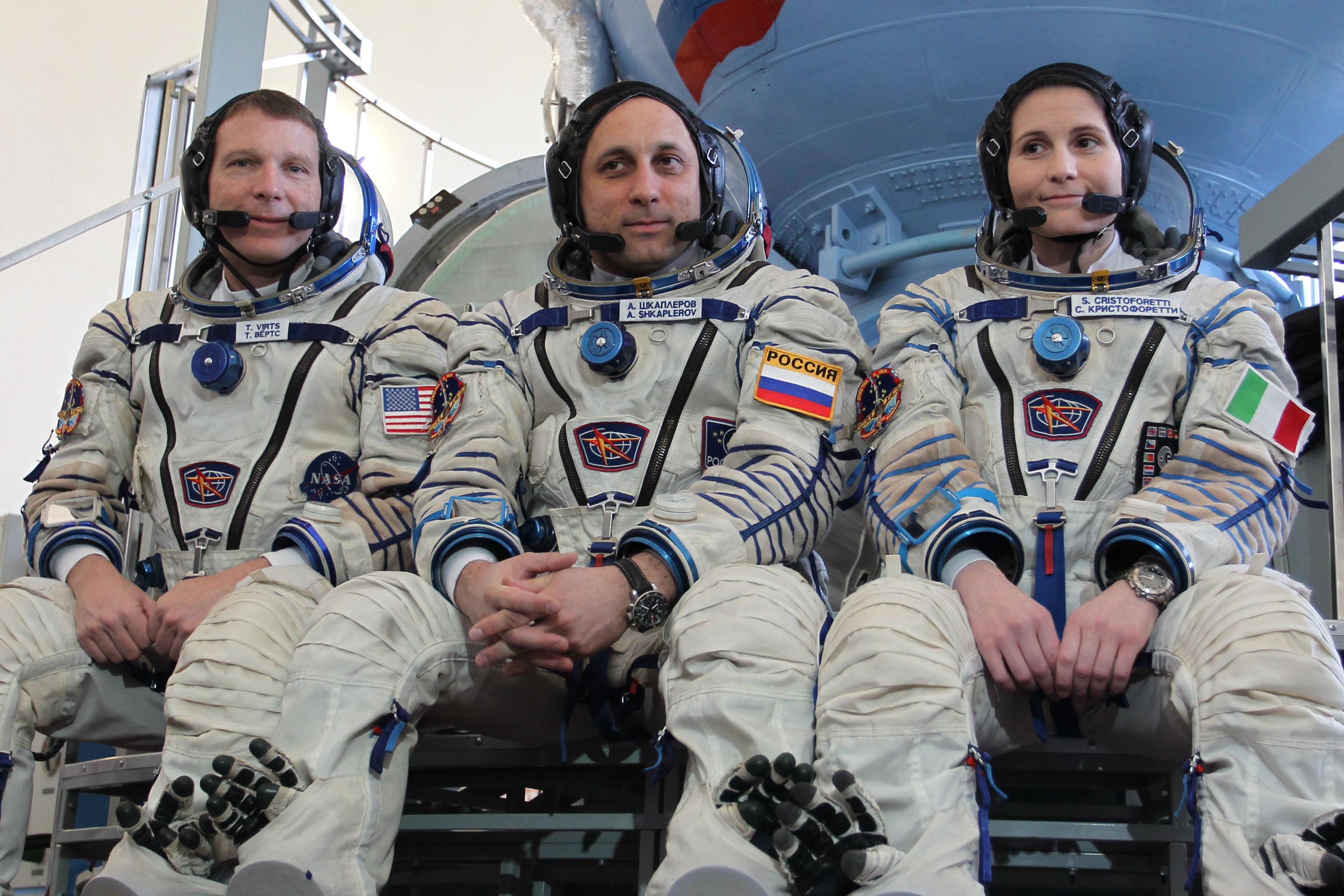 At the Gagarin Cosmonaut Training Center in Star City, Russia, Expedition 40/41 backup crew members Terry Virts of NASA (left), Soyuz Commander Anton Shkaplerov of the Russian Federal Space Agency (Roscosmos, center) and Samantha Cristoforetti of the European Space Agency pose for pictures in front of a Soyuz simulator May 6 as part of their final qualification exams for flight. They are the backups to the prime crew --- Reid Wiseman of NASA, Maxim Suraev of Roscosmos and Alexander Gerst of the European Space Agency --- who are in the final stages of training for launch May 29, Kazakh time, from the Baikonur Cosmodrome in Kazakhstan on the Soyuz TMA-13M spacecraft to spend 5 ½ months on the International Space Station.